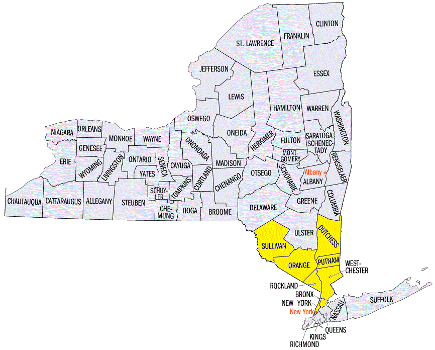 United States Southern District of New York counties.